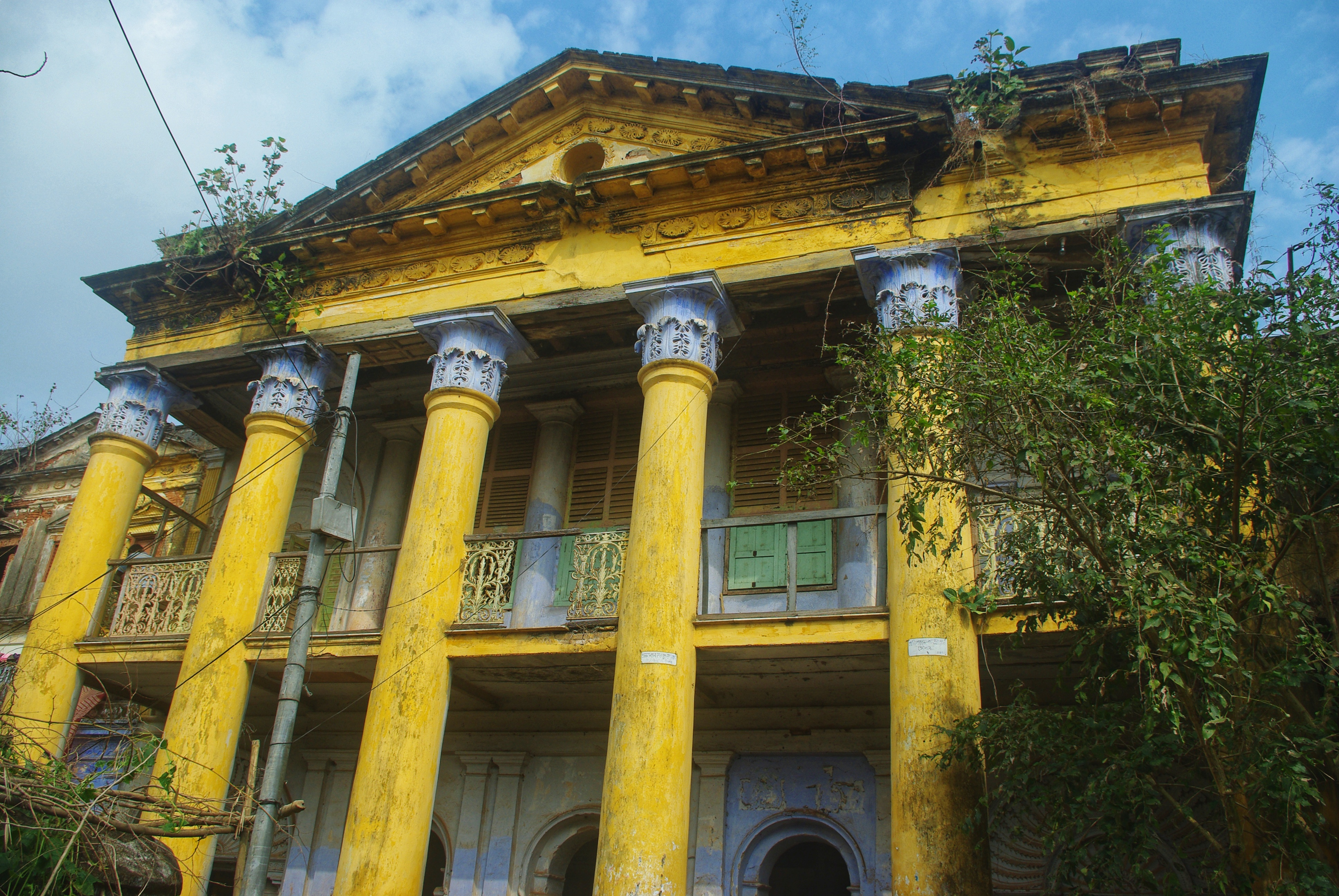 Narajole Rajbari belonged the Khan family who derived the title Khan from Nawab Nazim of Bengal in 1596.